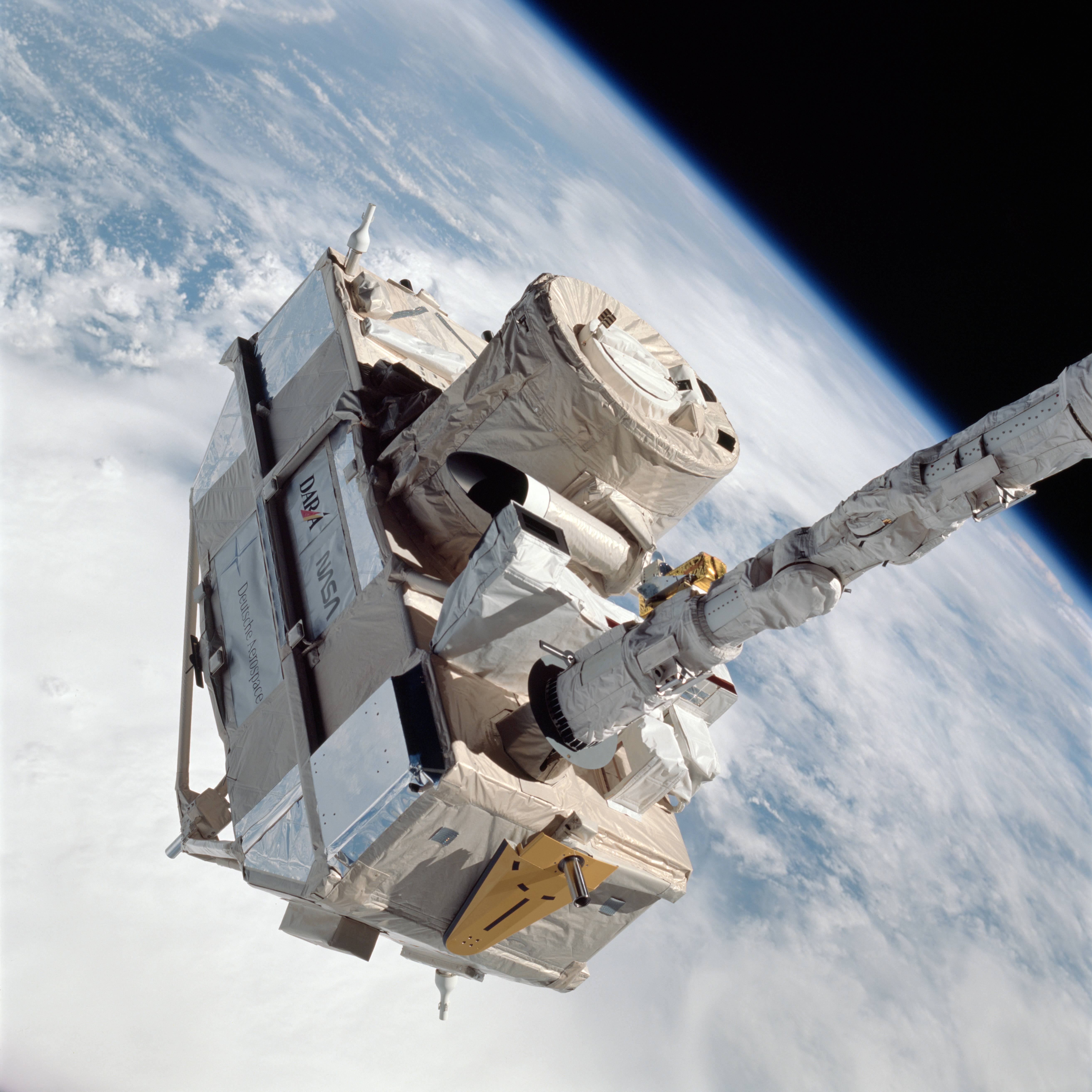 CRISTA-SPAS-2 satellite beeing deployed from Space Shuttle (image clipped)